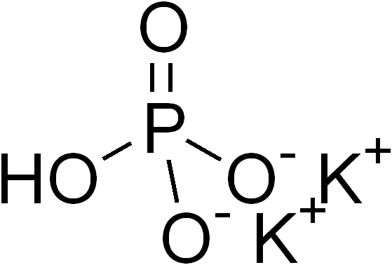 chemical structure of dipotassium phosphate